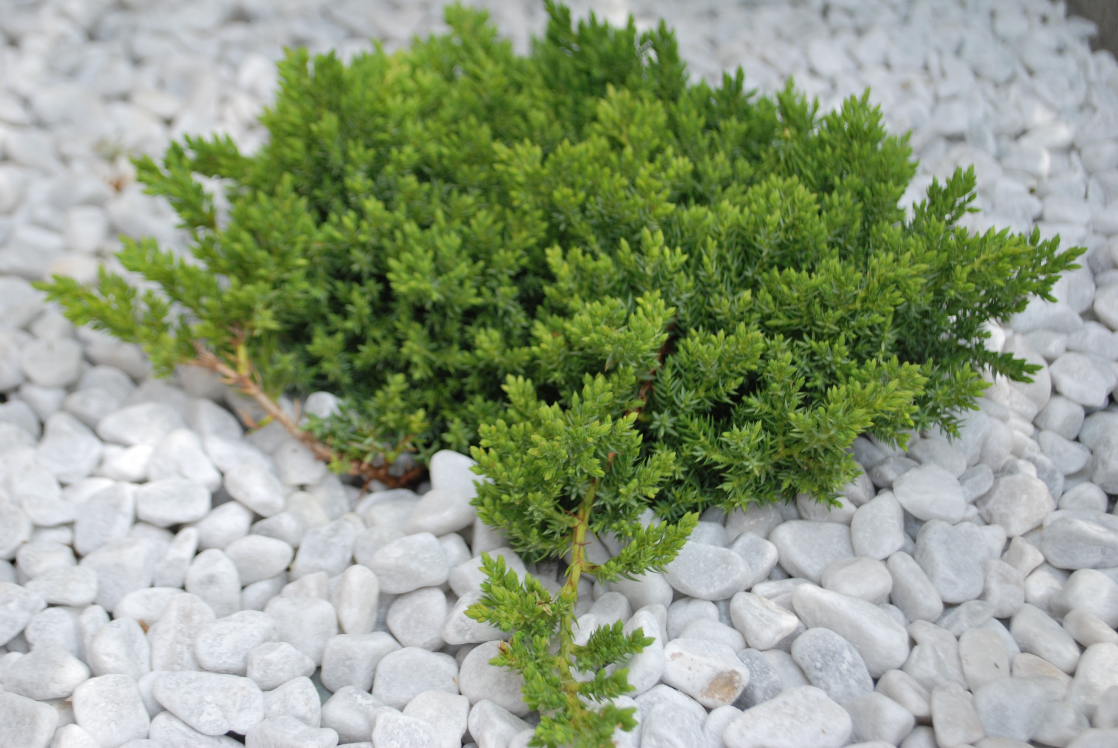 Plants in Rogačevo, Macedonia